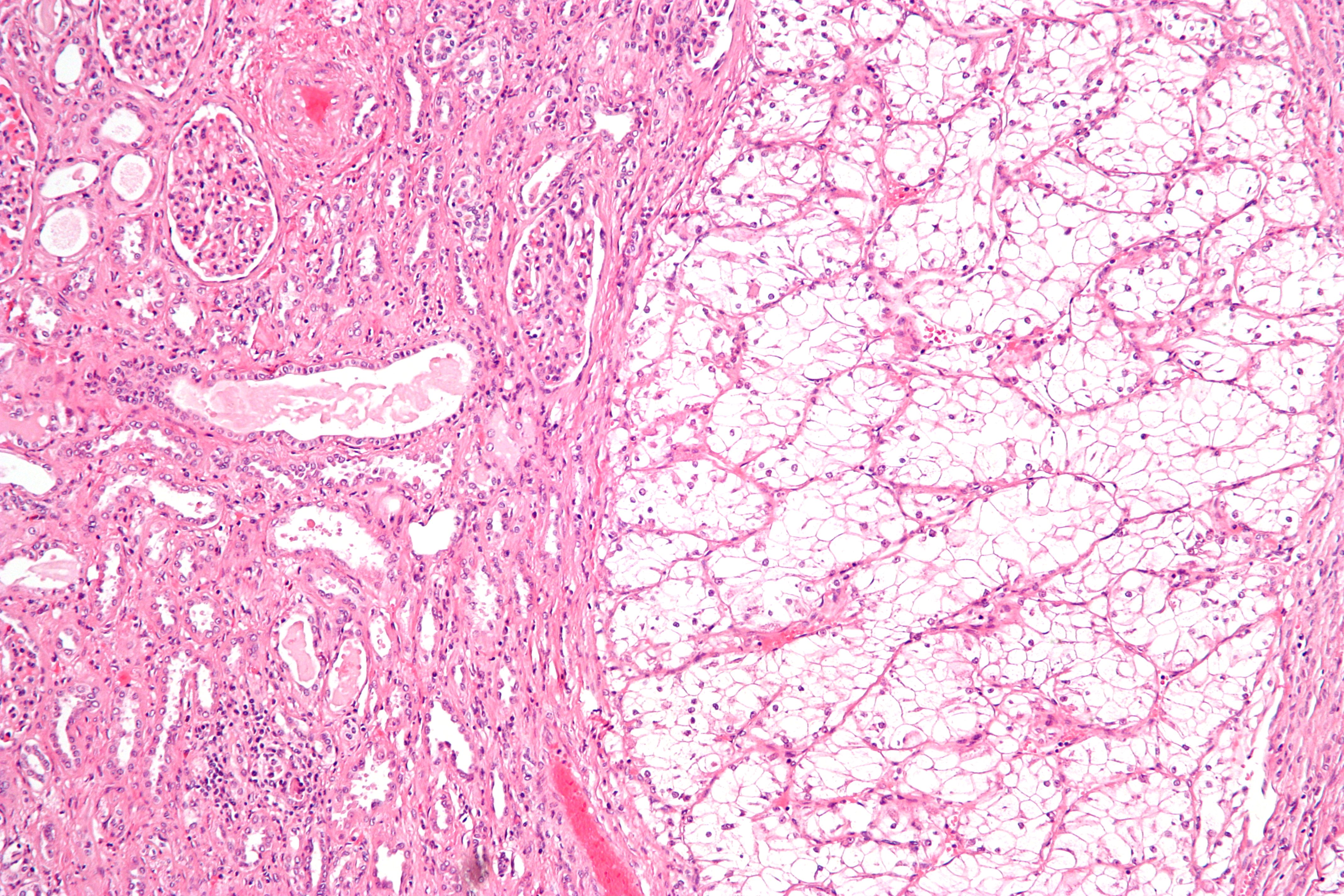 Intermediate magnification micrograph of a clear cell renal cell carcinoma. H&E stain. Features: Cells with clear cytoplasm, typically arranged in nests. Nuclear atypia is common. The case seen in the image has Fuhrman grade 2/4; the nuclear atypia is moderate and nucleoli could not be seen at 100 X. Related images High mag. (cropped) High mag. Intermed. mag.